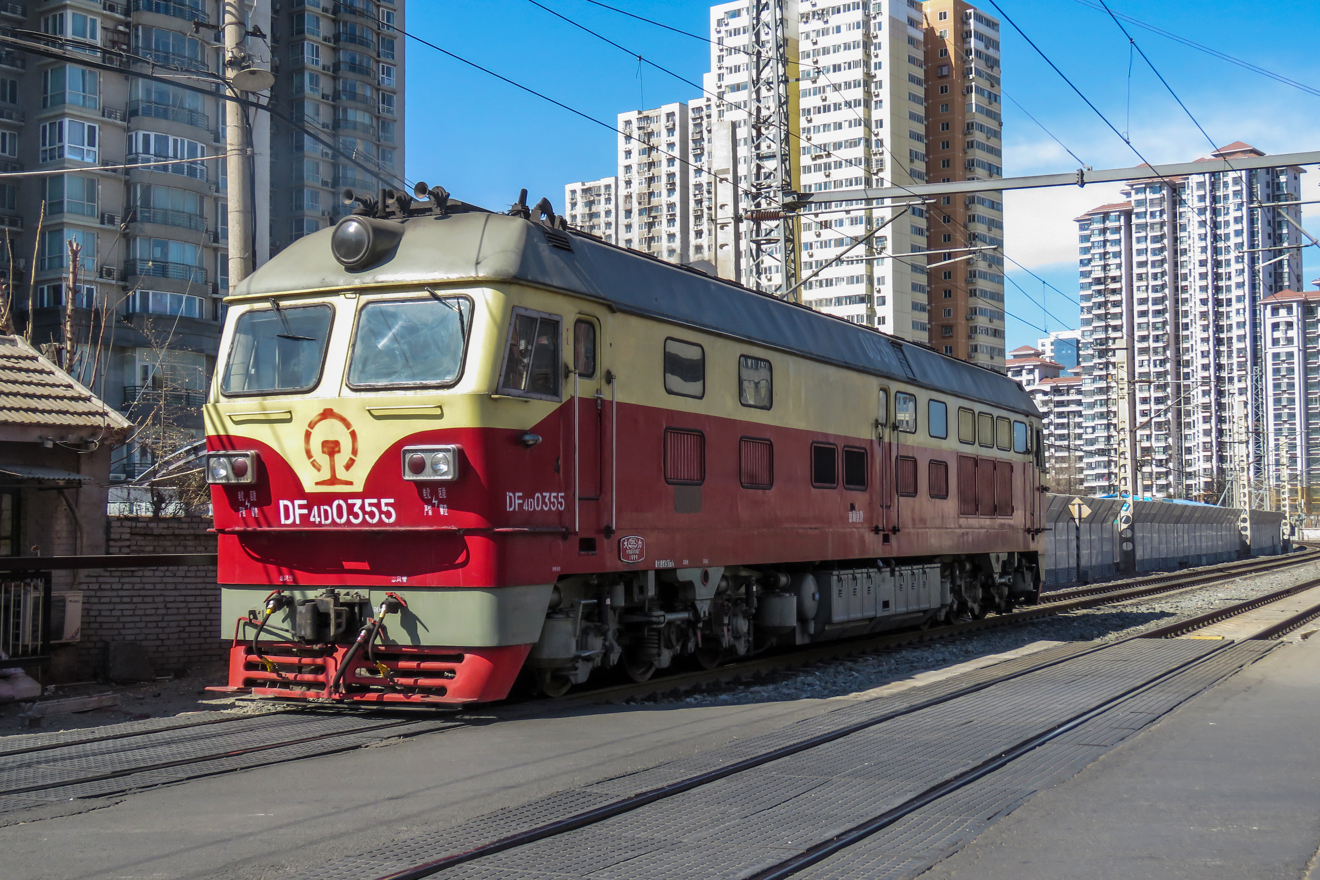 50353 from Beijing Diesel, via Liucun VI Line.